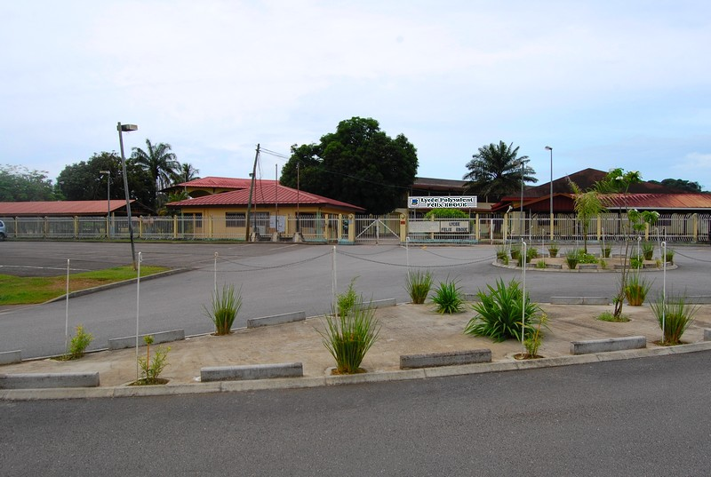 Llycée Félix Eboué in Cayenne, French Guiana.